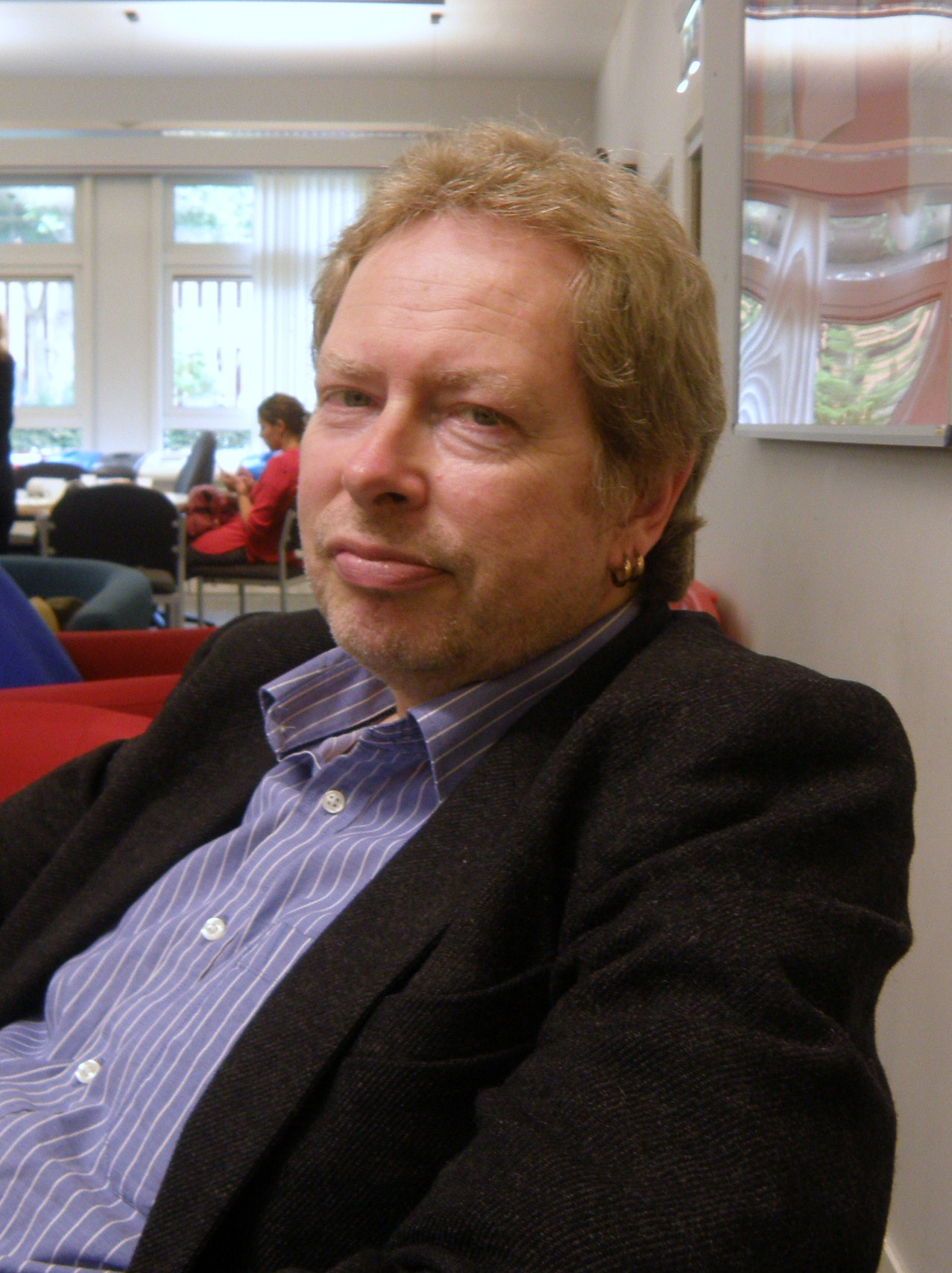 Political theorist Robert Garner at the MANCEPT Workshops, 2013, at the University of Manchester. Professor Garner spoke on ideal versus non-ideal theory in animal liberation ethics. He was aware that I was taking the picture, and for what it would be used.